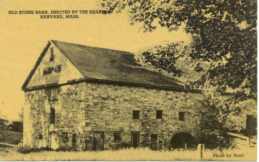 Old Stone Barn — meeting house of Harvard Shakers in c. 1915. Present day history museum. From an old postcard.